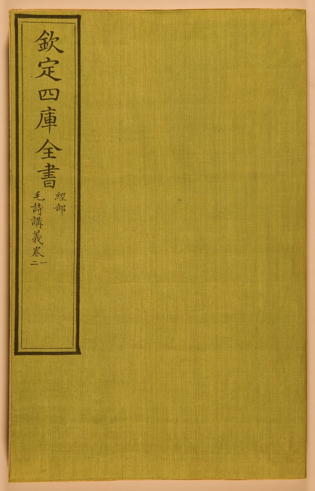 Siku quanshu (Complete library in four sections), compiled in the Qianlong period of the Qing dynasty, was the largest collection of texts in pre-modern China and has an important historical place in the histories of cultural texts and academic thought in China. The Wenjin ge edition is a manuscript written during the Qianlong reign. It includes a total of 36,304 volumes in 6,144 boxes placed on 128 bookshelves. They comprise 79,309 juan (sections) and were originally kept in the Wenjin Pavilion at the Summer Palace in Rehe (Jehol, now Chengde). In 1914, they became part of the holdings of the Capital Library (now the National Library of China). The complete collection is divided into four sections: classics, histories, masters, and belles-lettres, each bound in the colors of one of the four seasons, for convenient browsing. The texts on which the Wenjin ge edition was based were the books kept in the Palace Treasury, books compiled by the Qing court, books submitted from all quarters of the empire, and books reconstituted from the Yongle Encyclopedia. The complete set of the Siku quanshu in the National Library of China preserves a rich body of literature and historical materials, as well as the original shelving, cases, and books. Qing dynasty, 1644-1911